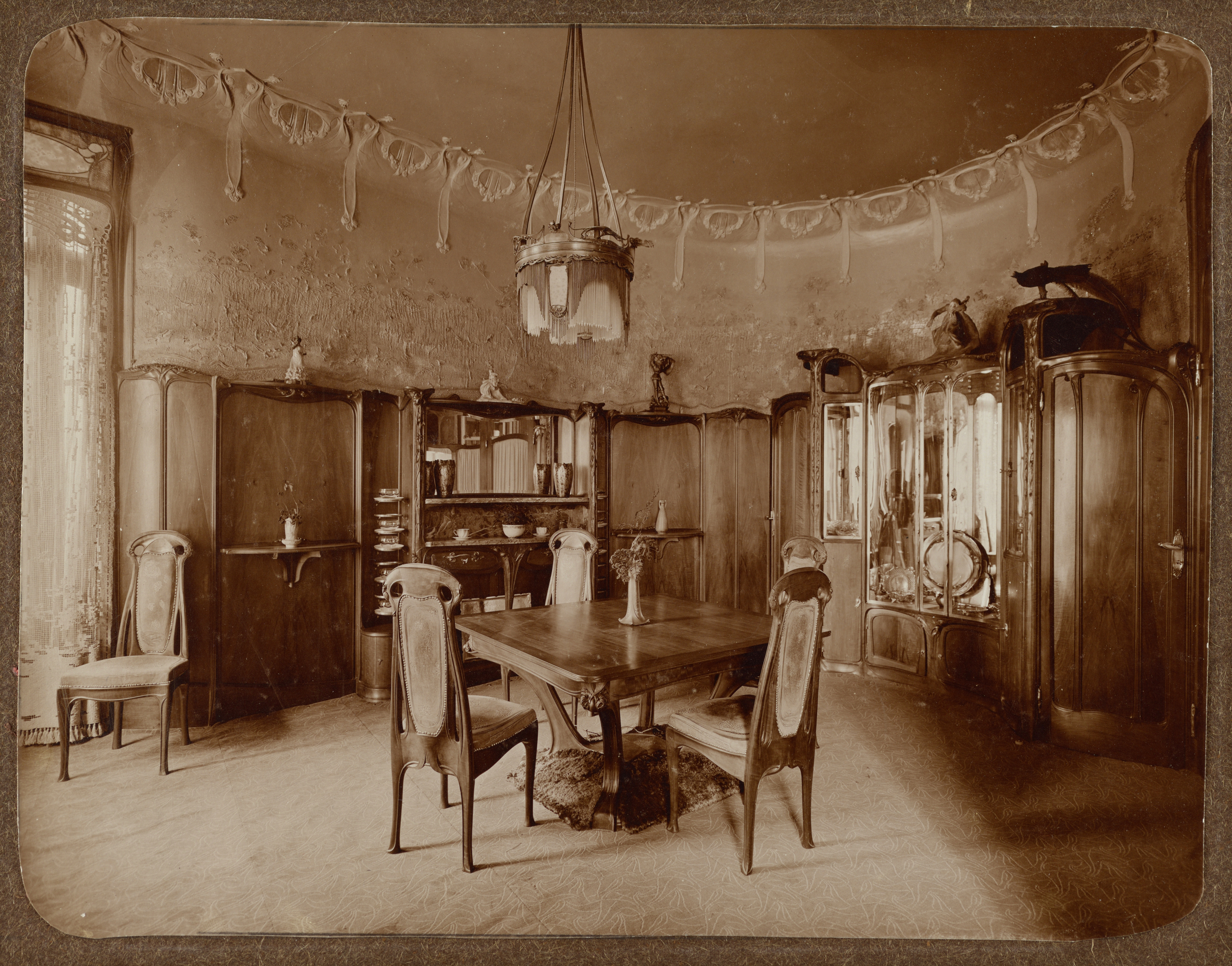 Interior view of Hector Guimard's house at 22 rue Mozart. A square table with four chairs is in the center of the room, with built-in china closet and sideboard. Paneling on the walls about half the height of the room and ornamental plasterwork above that and on ceiling. A window with Guimard-designed lace curtain is at left.